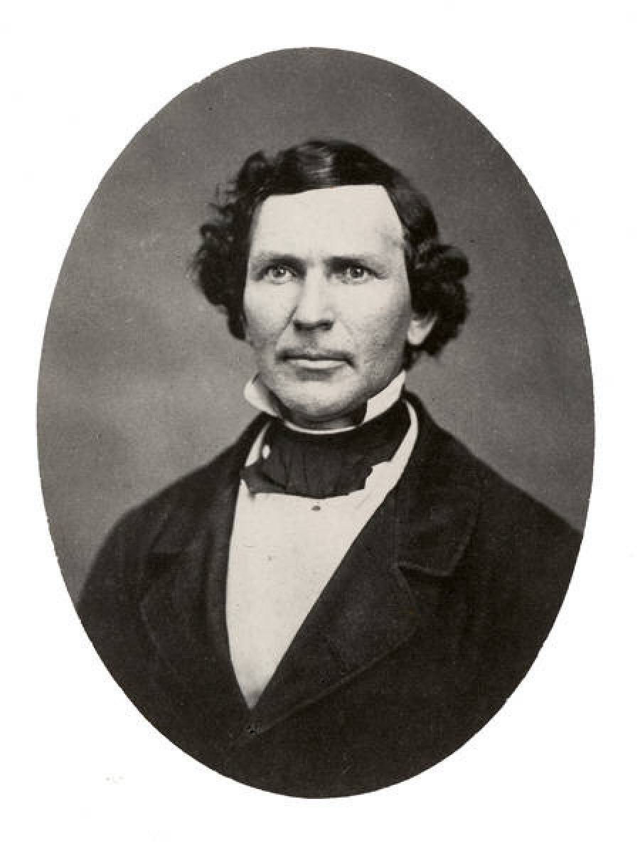 Allen, George Nelson, 1812-1877. George Nelson Allen, faculty member at Oberlin College, Oberlin, Ohio, from 1838 to 1871. Mr. Allen died in Cincinnati, Ohio on December 9, 1877. This photo is from the 1859 Class Album of Oberlin College.